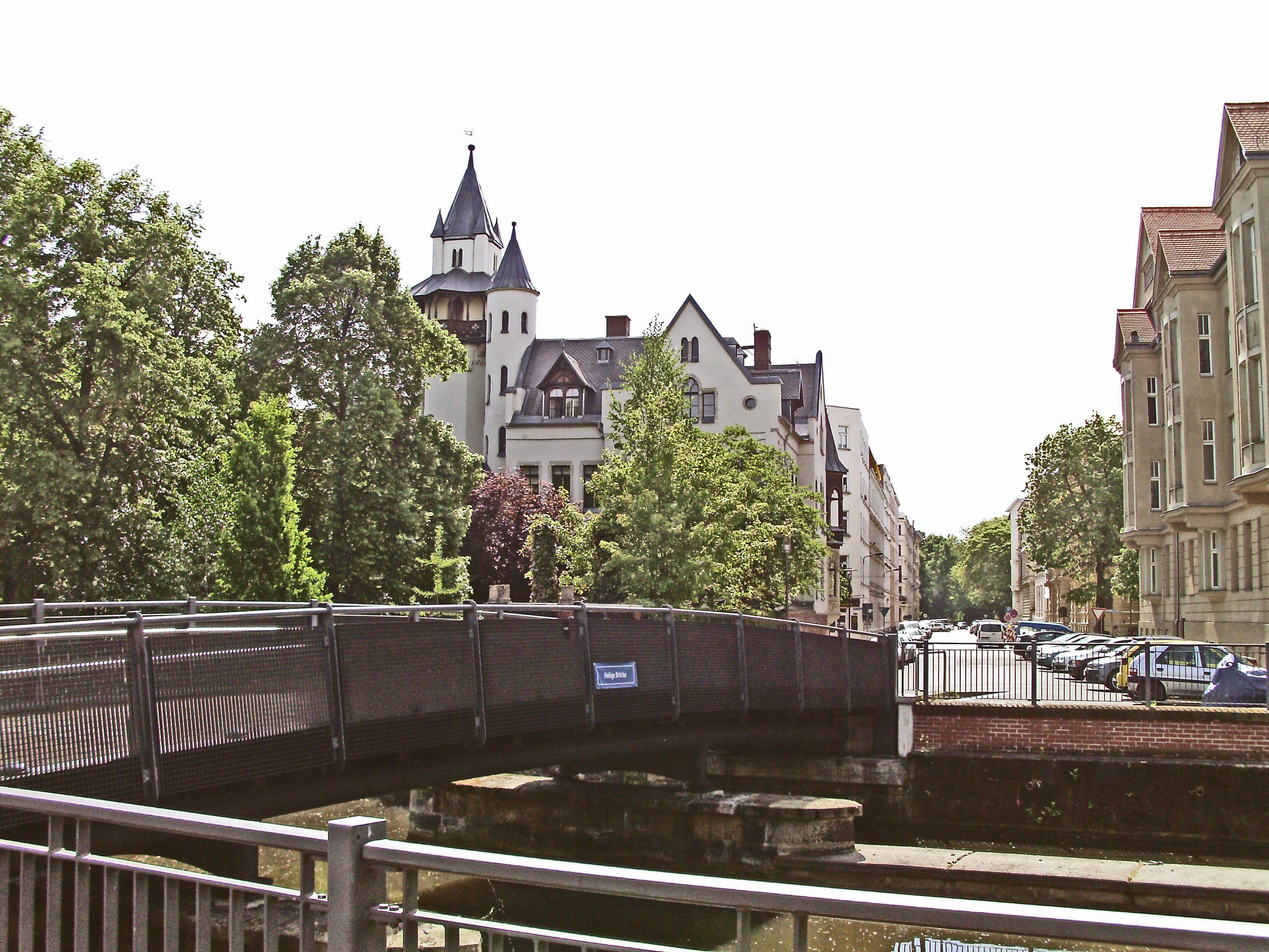 Heilige Brücke ("Holy Bridge") over the Elstermühlgraben in Leipzig vith the Julburg Villa in the background